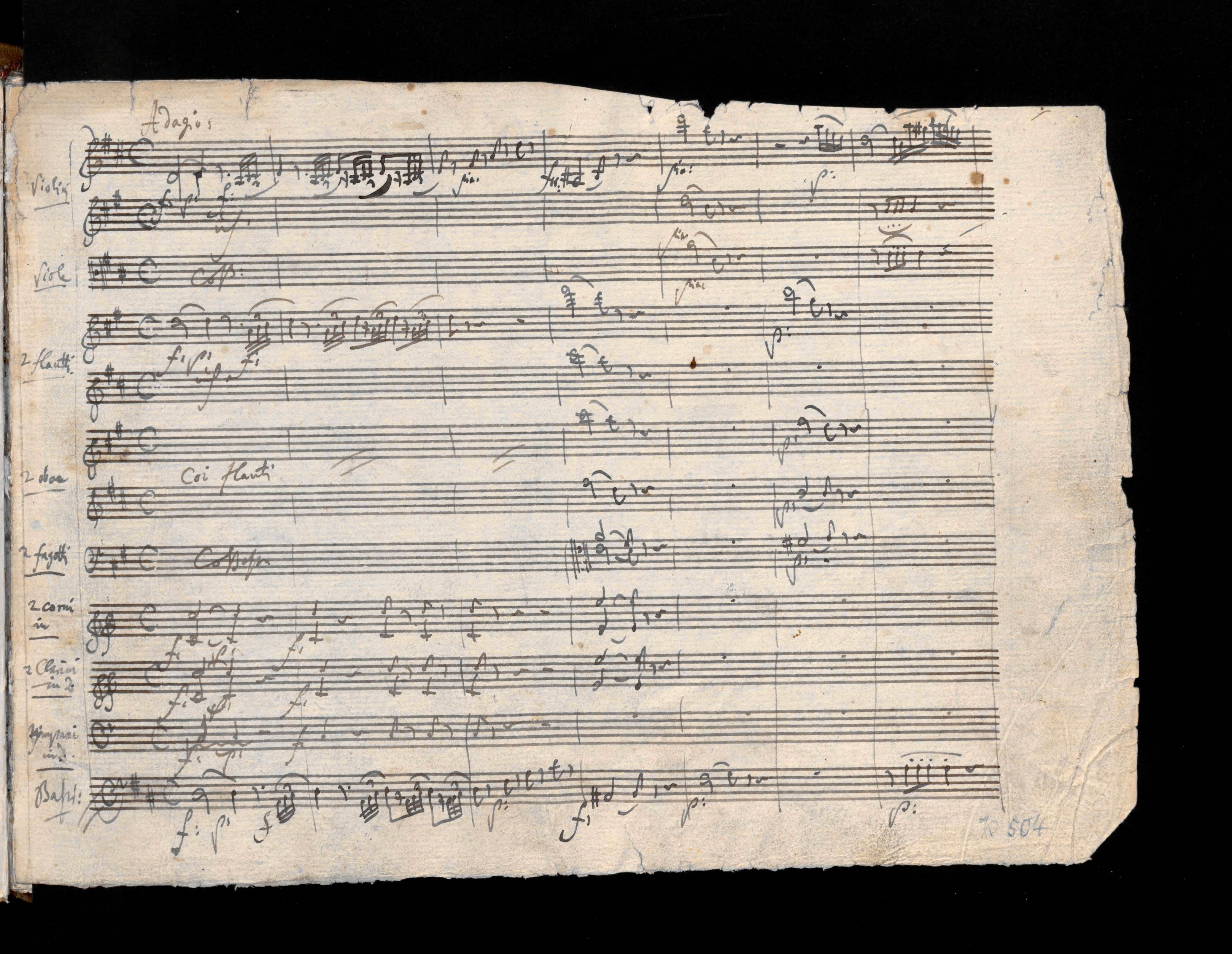 The opening of the autograph manuscript of Mozart's Symphony No.38 in D Major, K.504. Preserved today at the Biblioteka Jagiellońska, Kraków.